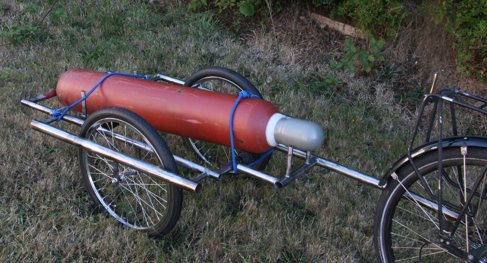 I decided to make my own bicycle trailer for hauling welding gas cylinders to the welding shop for refill. I do not have a car and I desire to use my bicycle as much as possible.